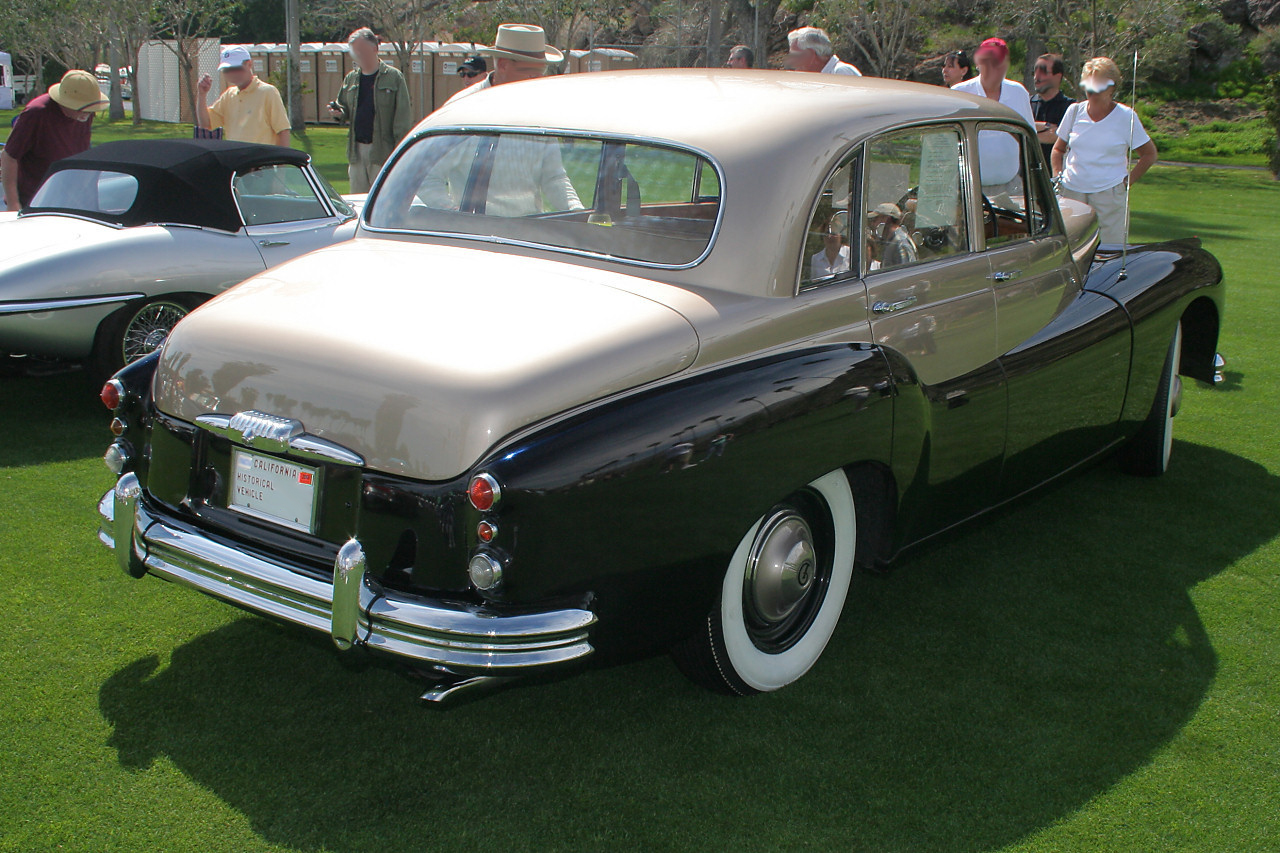 1956 Daimler One-O-Four, rear view